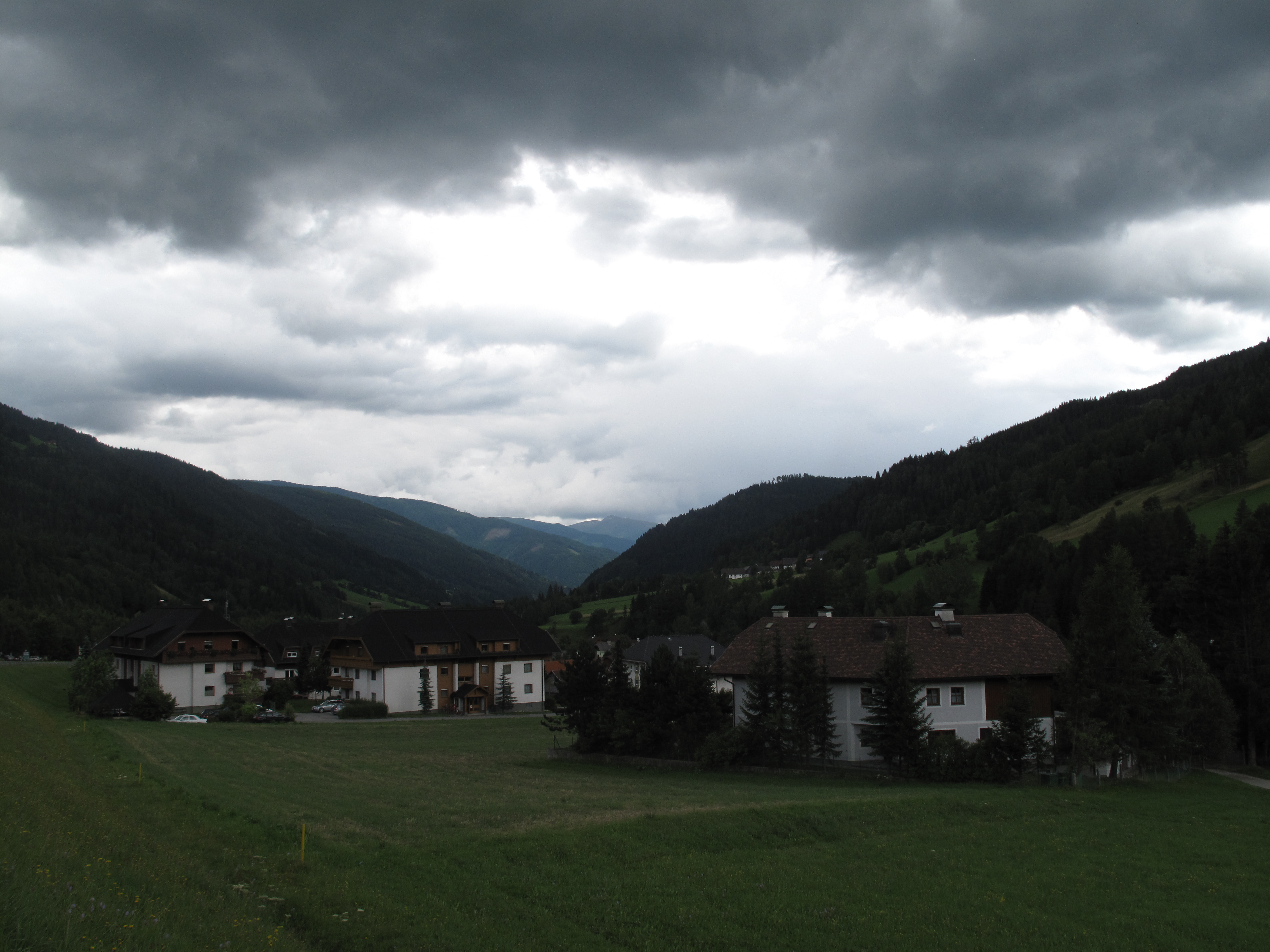 Rennweg, view to the village